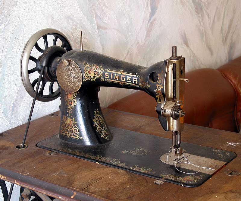 Singer sewing machine